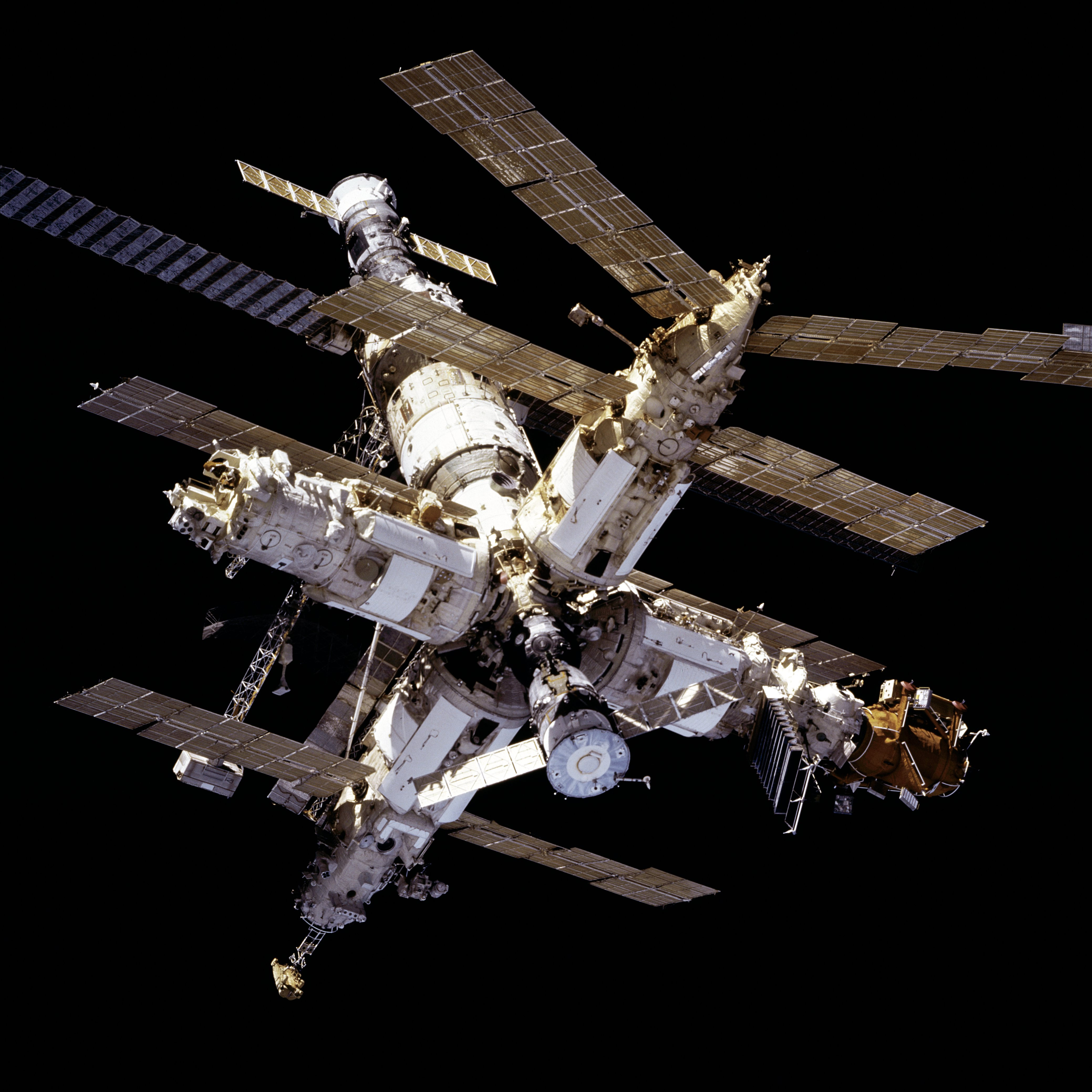 This is a view of the Russian Mir Space Station photographed by a crewmember of the fifth Shuttle/Mir docking mission, STS-81. The image shows: upper center - Progress supply vehicle, Kvant-1 module, and Core module; center left - Priroda module; center right - Spektr module; bottom left - Kvant-2 module; bottom center - Soyuz; and bottom right - Kristall module and Docking module. The Progress was an unmarned, automated version of the Soyuz crew transfer vehicle, designed to resupply the Mir. The Kvant-1 provided research in the physics of galaxies, quasars, and neutron stars, by measuring electromagnetic spectra and x-ray emissions. The Core module served as the heart of the space station and contained the primary living and working areas, life support, and power, as well as the main computer, communications, and control equipment. Priroda's main purpose was Earth remote sensing. The Spektr module provided Earth observation. It also supported research into biotechnology, life sciences, materials science, and space technologies. American astronauts used the Spektr as their living quarters. Kvant-2 was a scientific and airlock module, providing biological research, Earth observations, and EVA (extravehicular activity) capability. The Soyuz typically ferried three crewmembers to and from the Mir. A main purpose of the Kristall module was to develop biological and materials production technologies in the space environment. The Docking module made it possible for the Space Shuttle to dock easily with the Mir. The journey of the 15-year-old Russian Mir Space Station ended March 23, 2001, as the Mir re-entered the Earth's atmosphere and fell into the south Pacific Ocean.